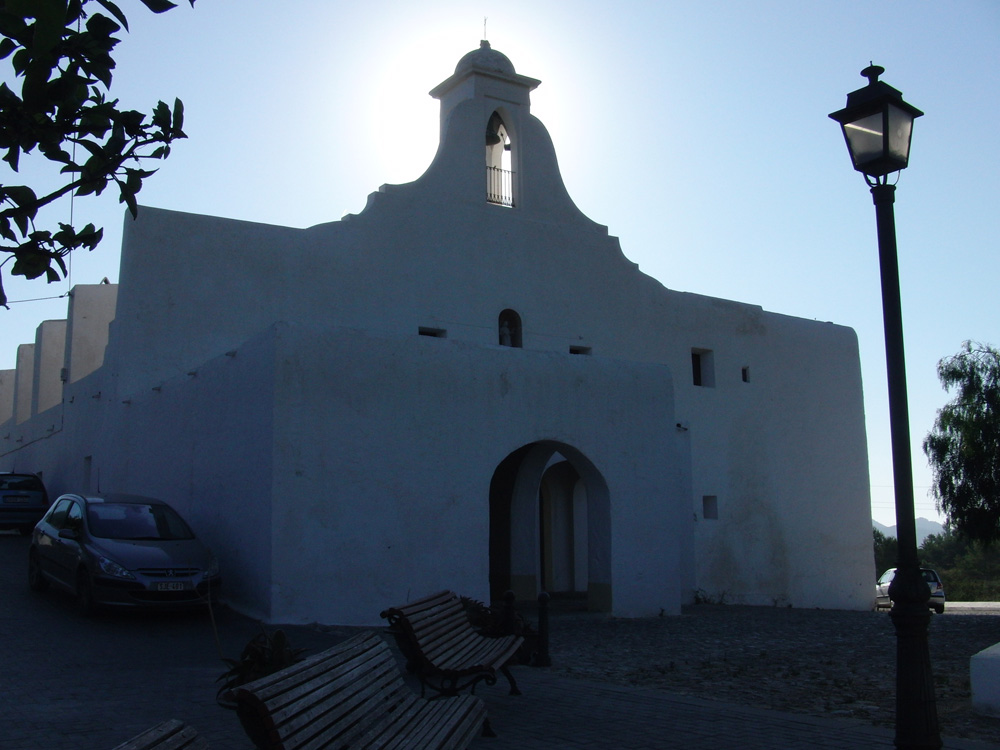 Church of San Rafael, Ibiza, Spain